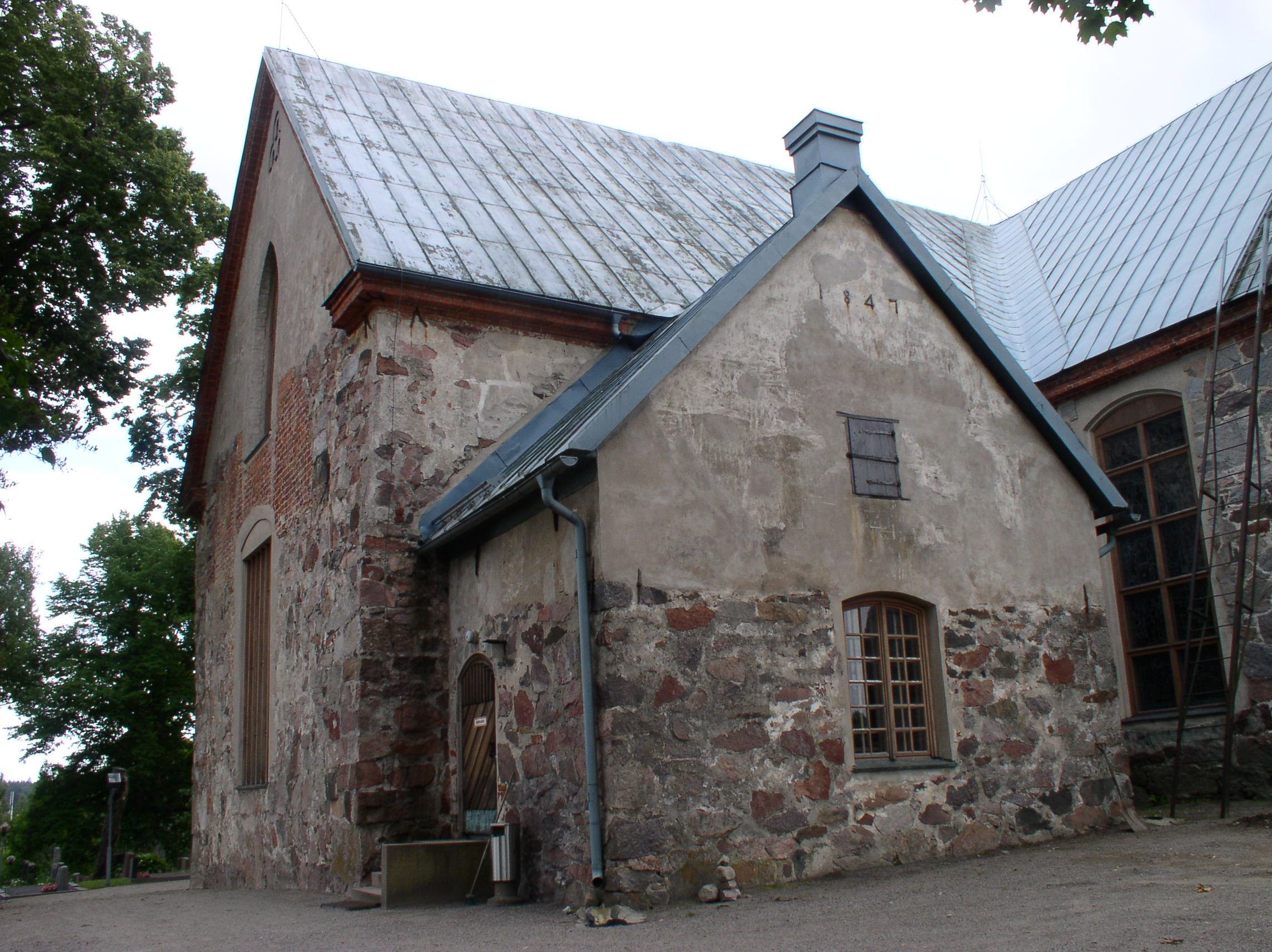 Kirkkonummi church in Kirkkonummi, Finland.